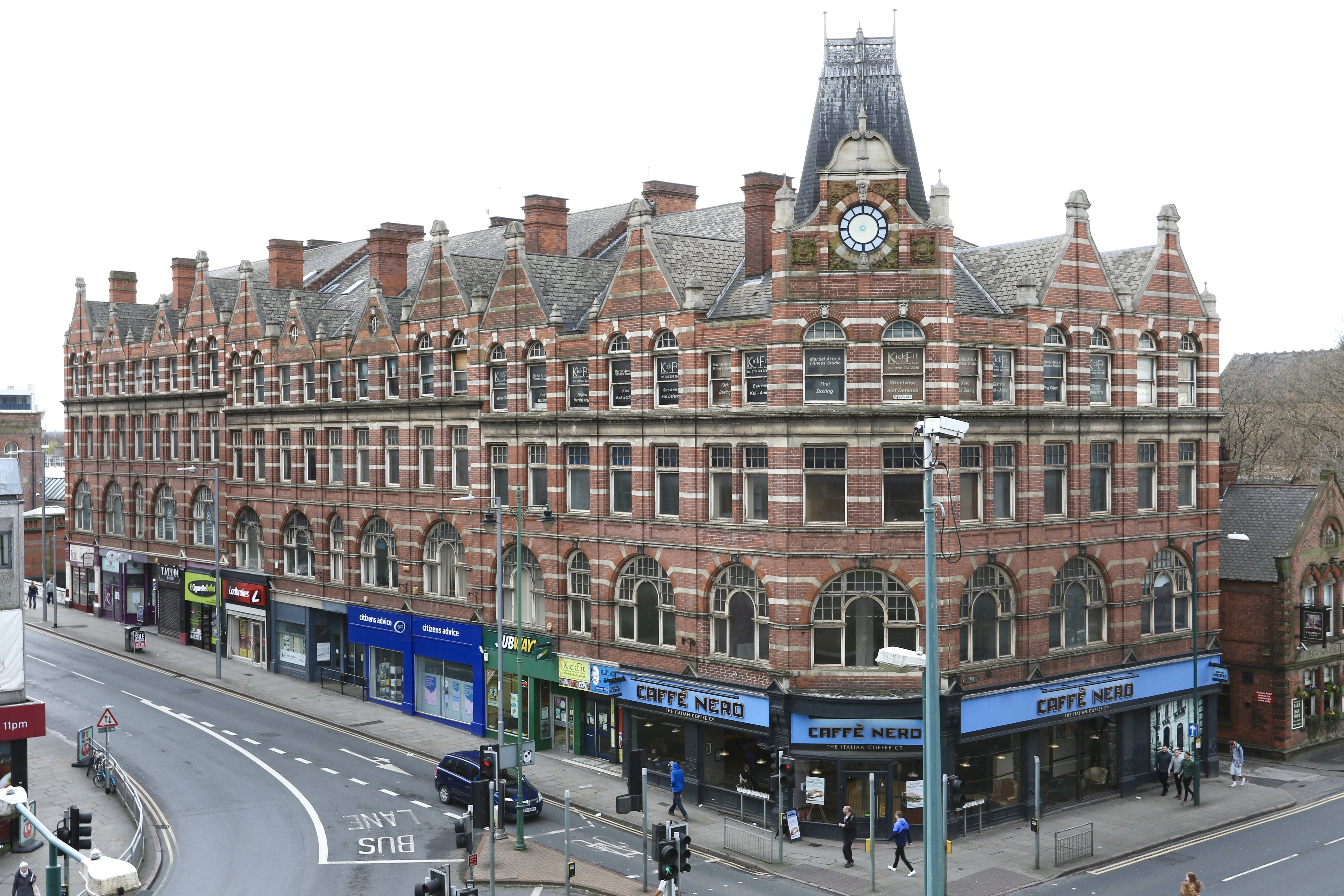 Built for Redmayne and Todd, Carrington Street, Nottingham 1896-97